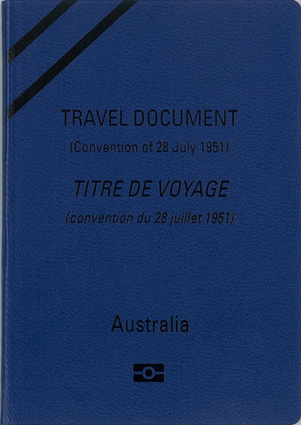 Australian Titres de Voyage (UN Convention Travel Document) cover